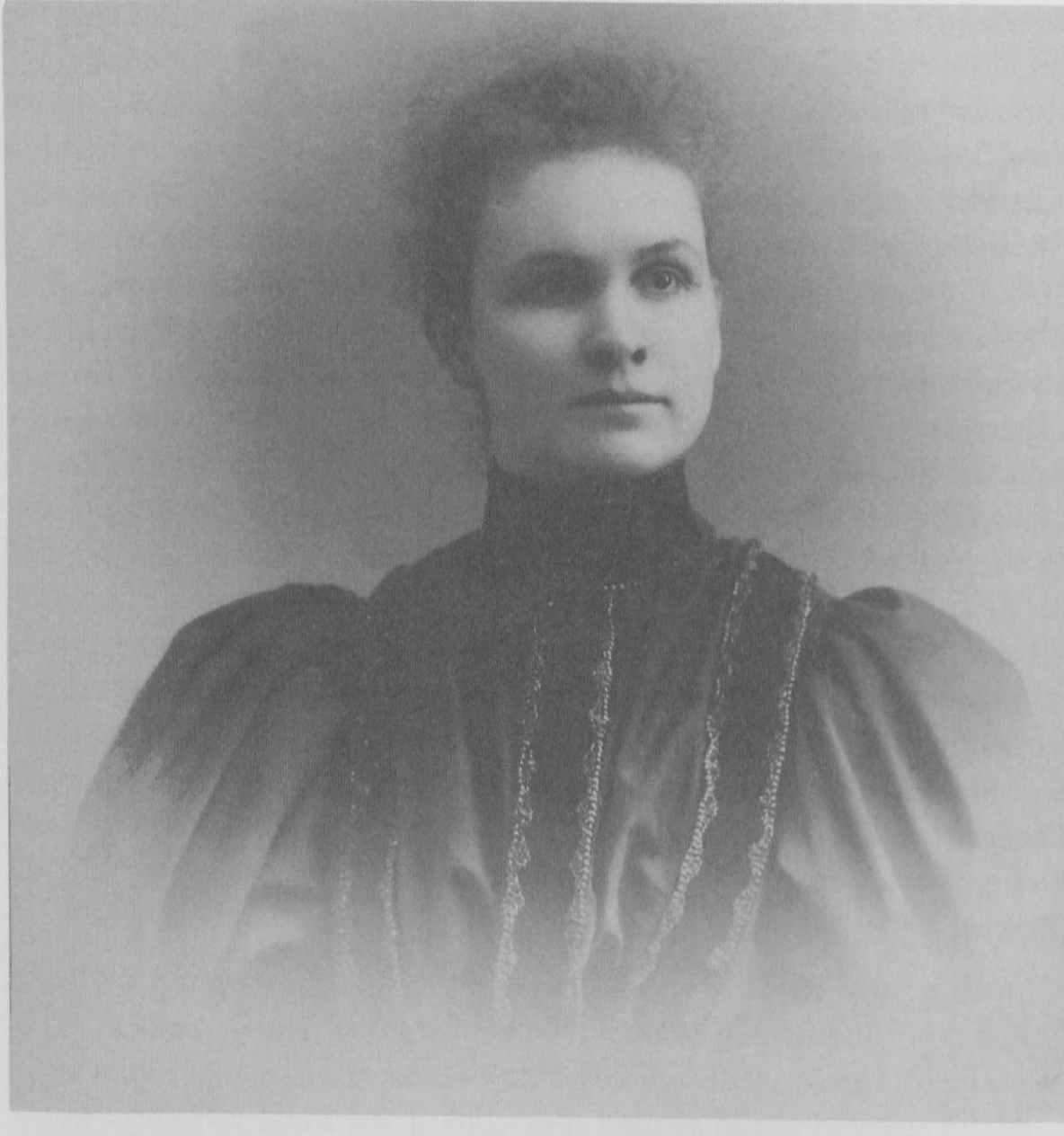 This photo was taken in 1895 of Dr. Jean Dow, one of the first female medical missionaries to the North Honan Mission. (Picture provided by The United Church of Canada and Victoria University Archives, Toronto).